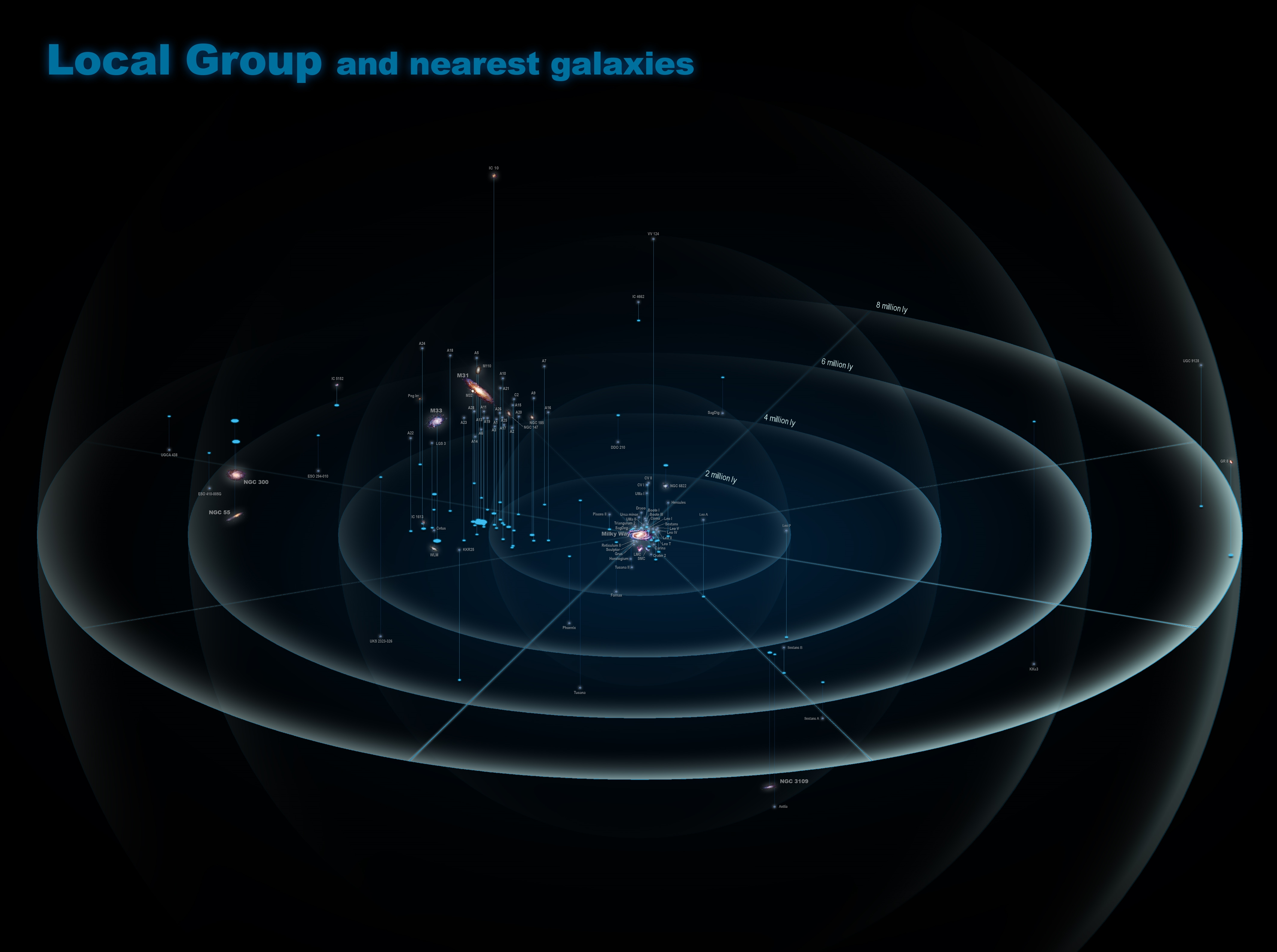 Local Group and nearest galaxies. The photos of galaxies are not to scale.